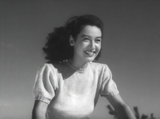 Setsuko Hara in the Japanese motion picture Late Spring (1949).